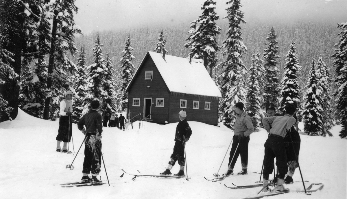 Skiers at Snoqualmie Pass, Washington, U.S. 1938. Given that this is from Seattle's Don Sherwood Parks History Collection, these are presumably recent graduates of the ski school that the Seattle Department of Parks and Recreation was running in that era. Item 30383, Don Sherwood Parks History Collection (Record Series 5801-01), Seattle Municipal Archives.